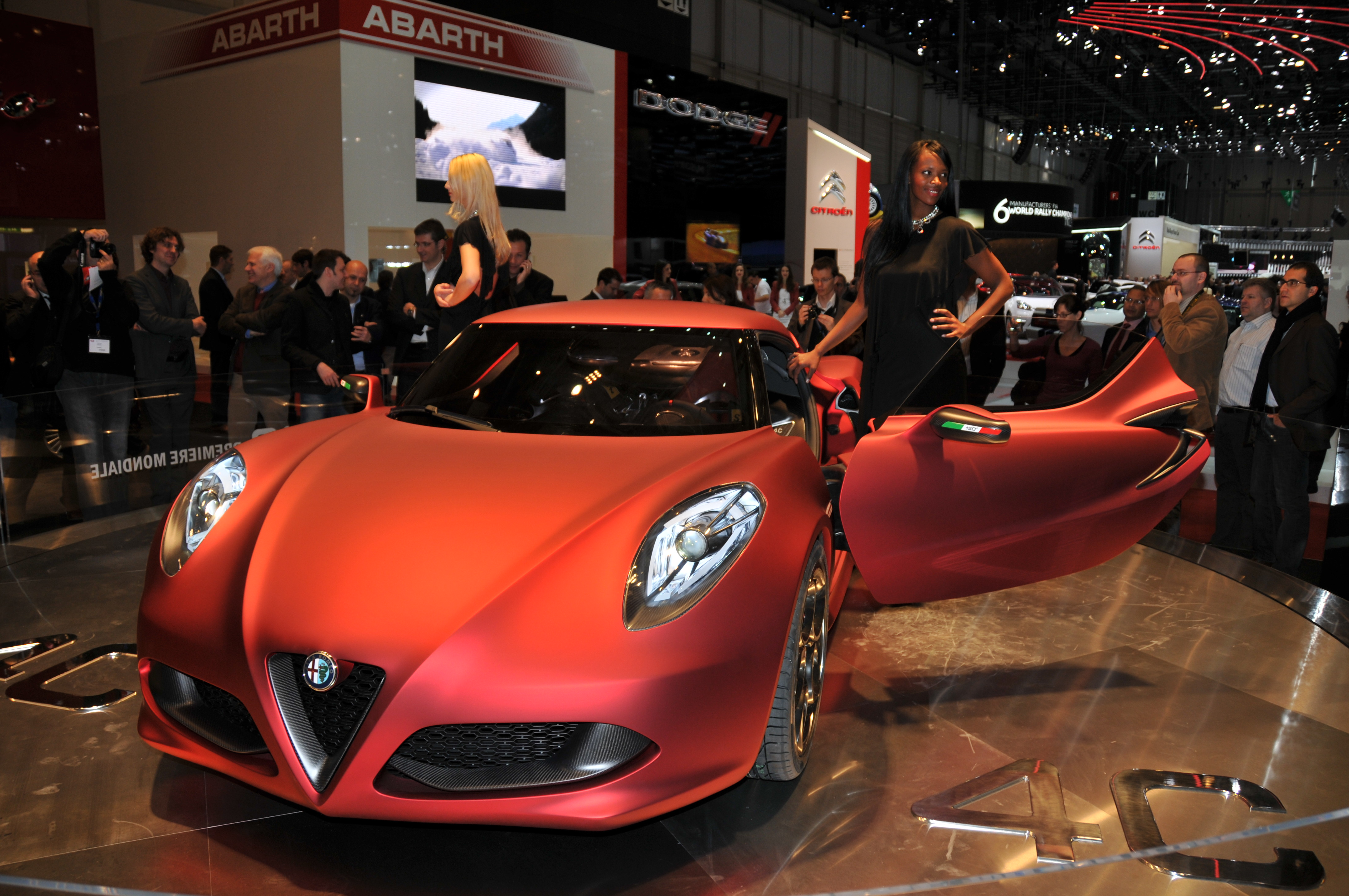 The Alfa Romeo 4C Concept was introduced at the 2011 Geneva Motor Show